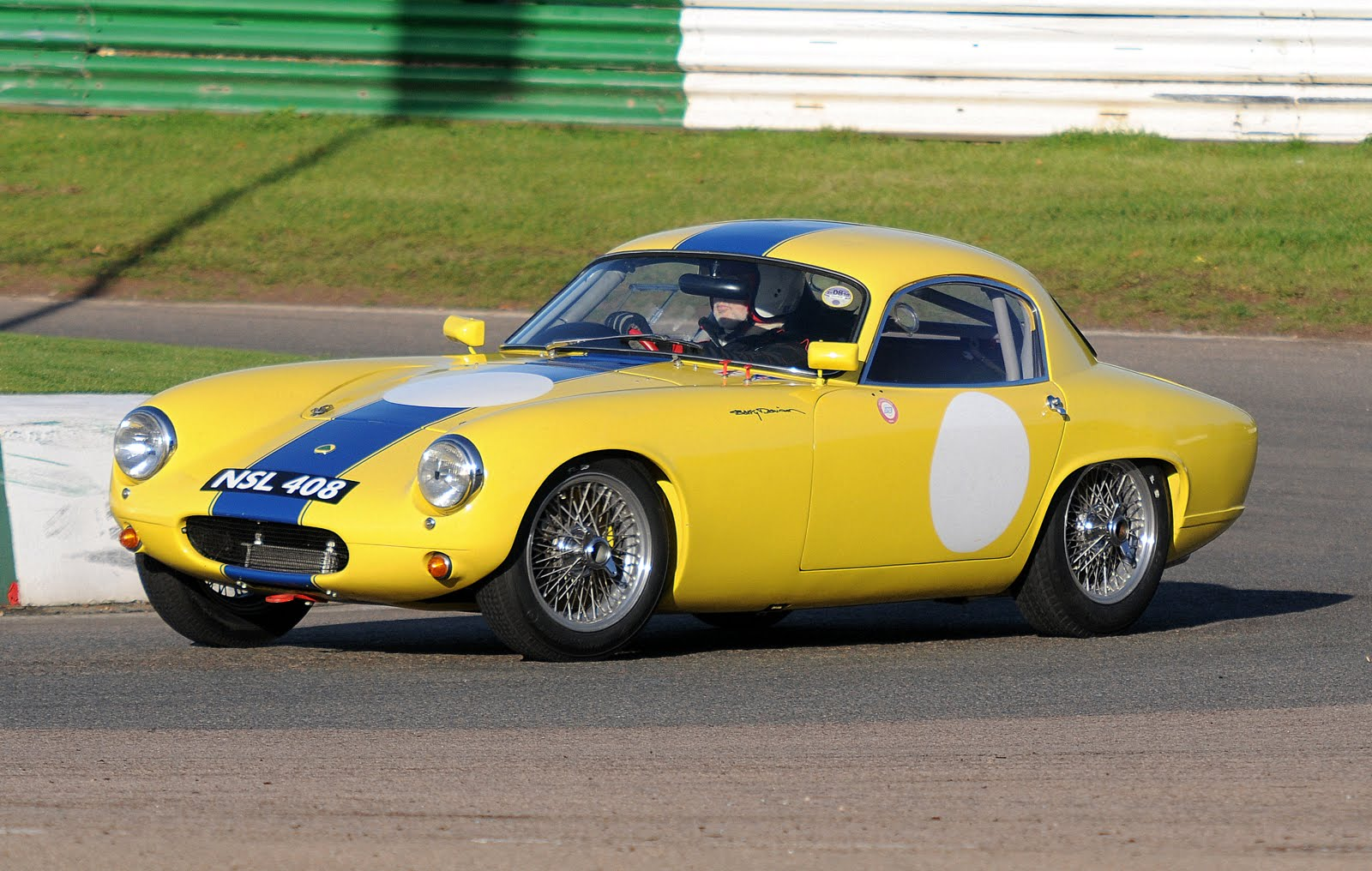 A Lotus Elite (Lotus 14) rounds the Hairpin at Mallory Park, November 2009.